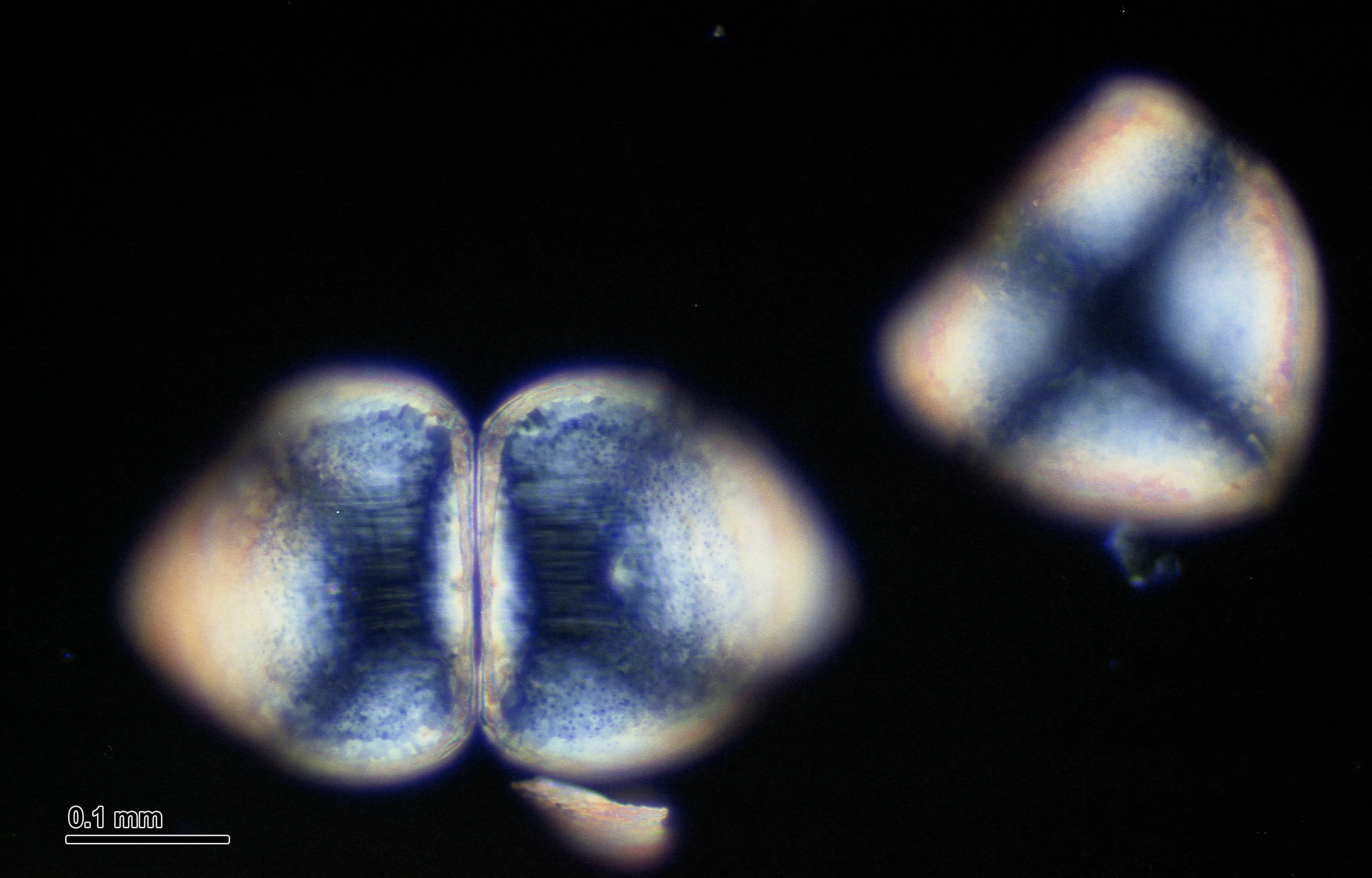 Swan mussel (Anodonta cygnea): Glochidium (larva). Optical microscopy technique: Polarized light. Magnification: 300x (for picture width 26 cm ~ A4 format).